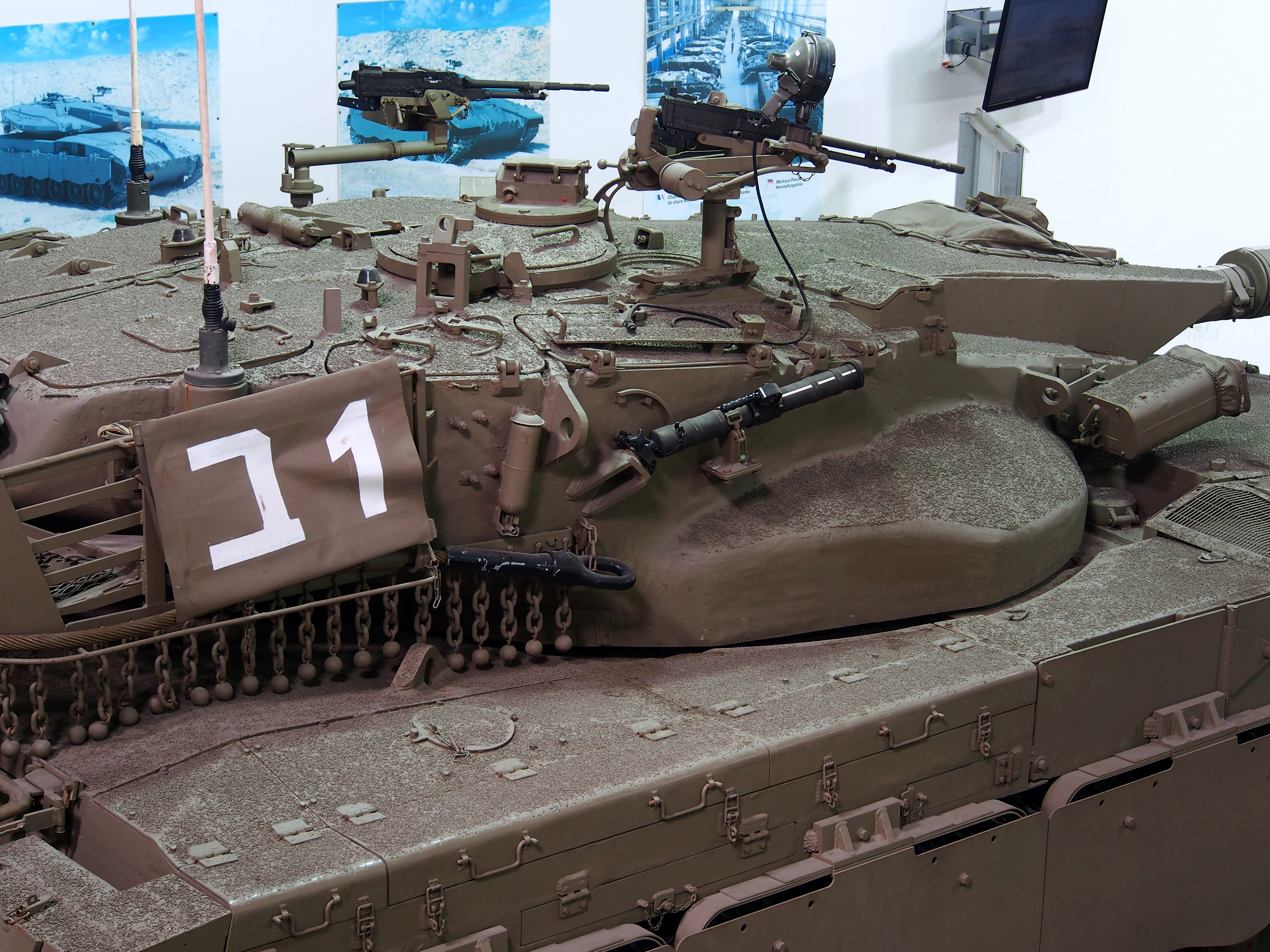 Photographed in the Musée des Blindés, France.